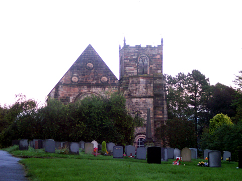 St. Mary's church, Tutbury, construction sponsored by Henry de Ferriers, ancestor of the de Ferrers earls of Derby, and ancestor of the author of this image. Henry de Ferriers and wife Bertha granted the land and sponsored the Church of St. Mary’s in Tutbury, adjacent to the castle. There is a modern plaque in the church but no visible burial/effigy.